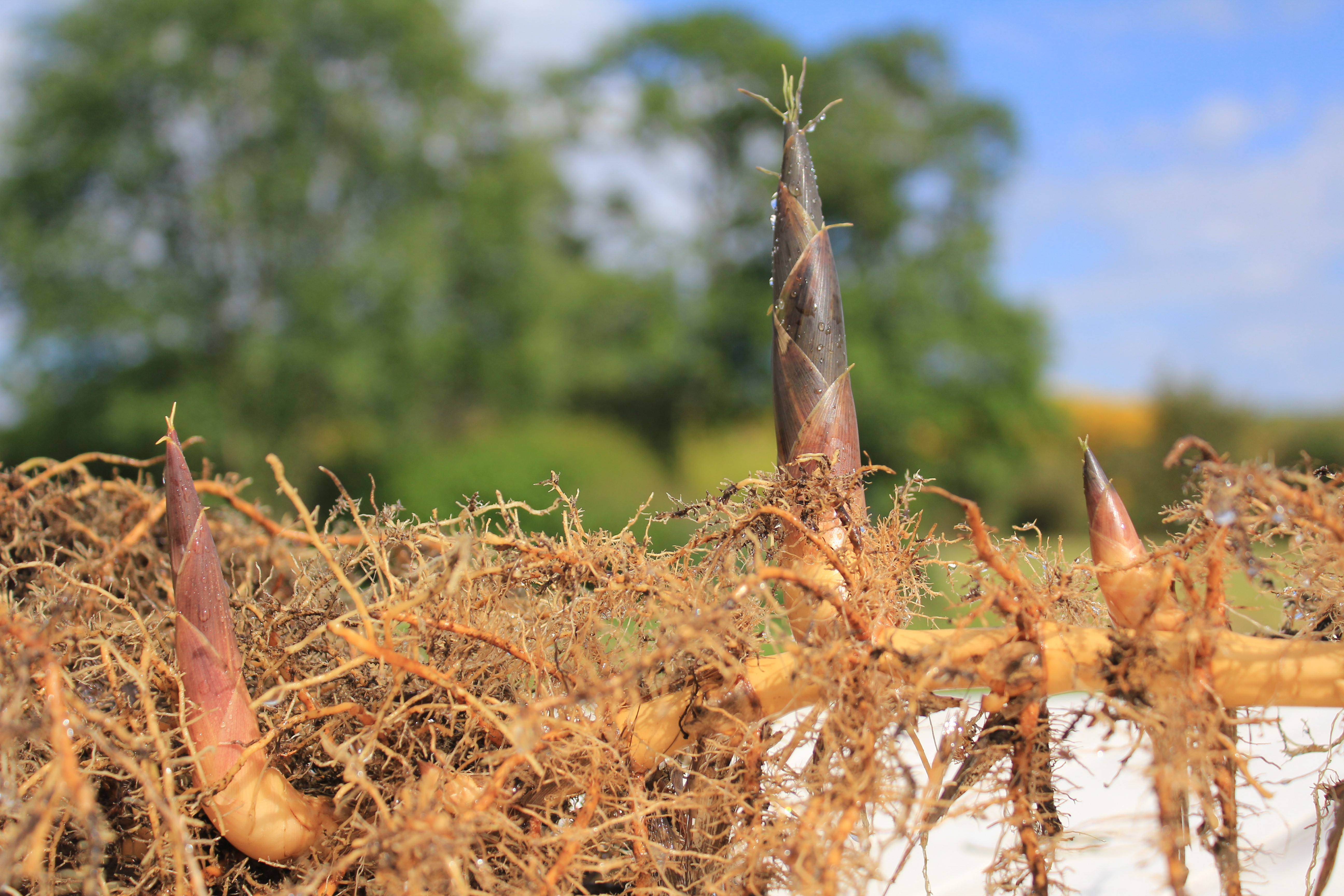 Bamboo with rhizome